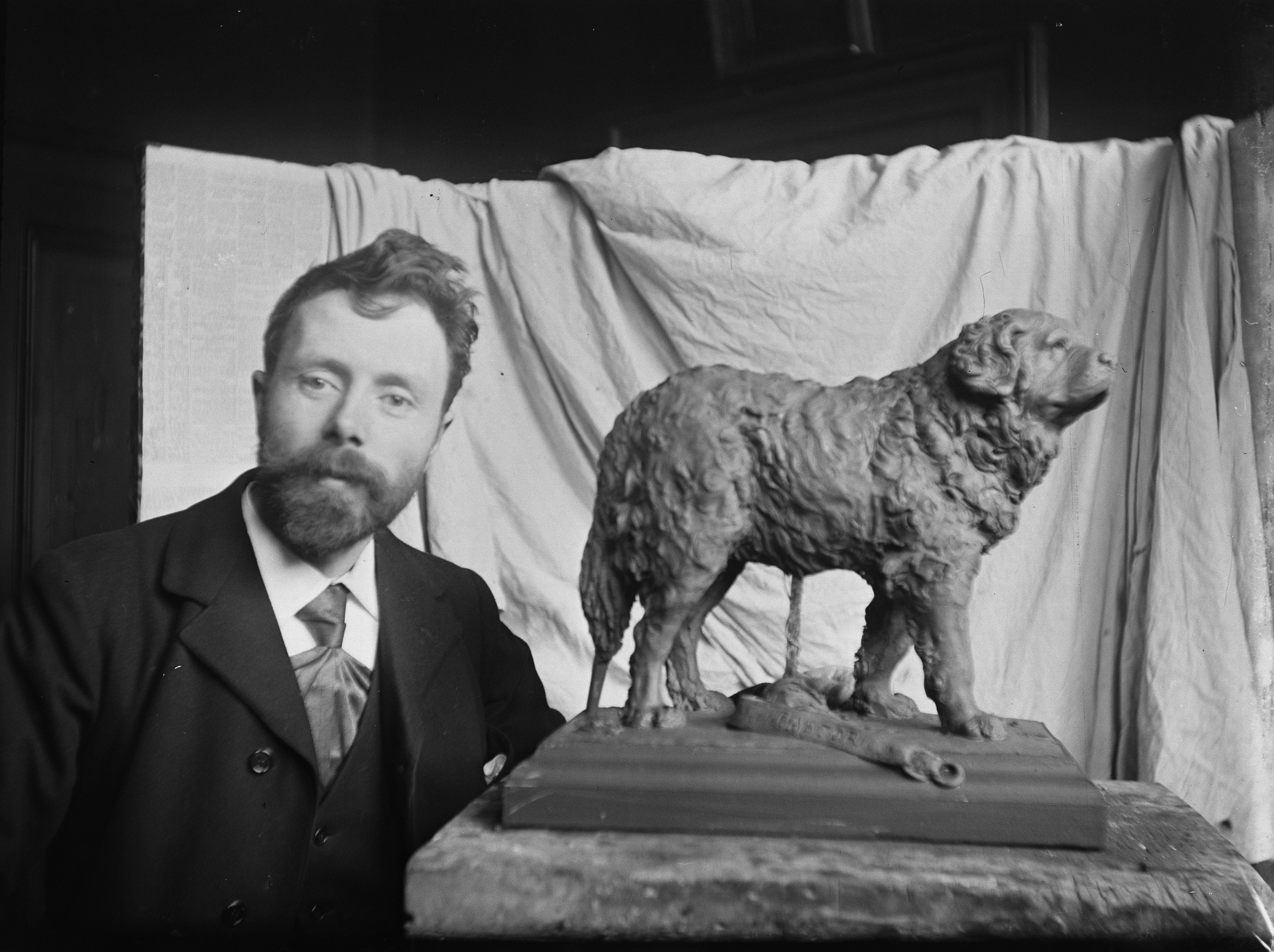 Portrait of the Dutch sculptor J.W. Best jr. (1860-1900)